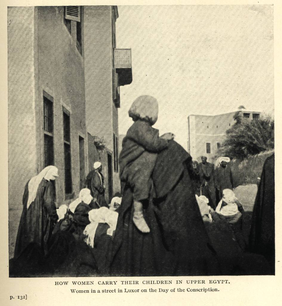 Many people are crowding a street. One woman has a child on her shoulder.